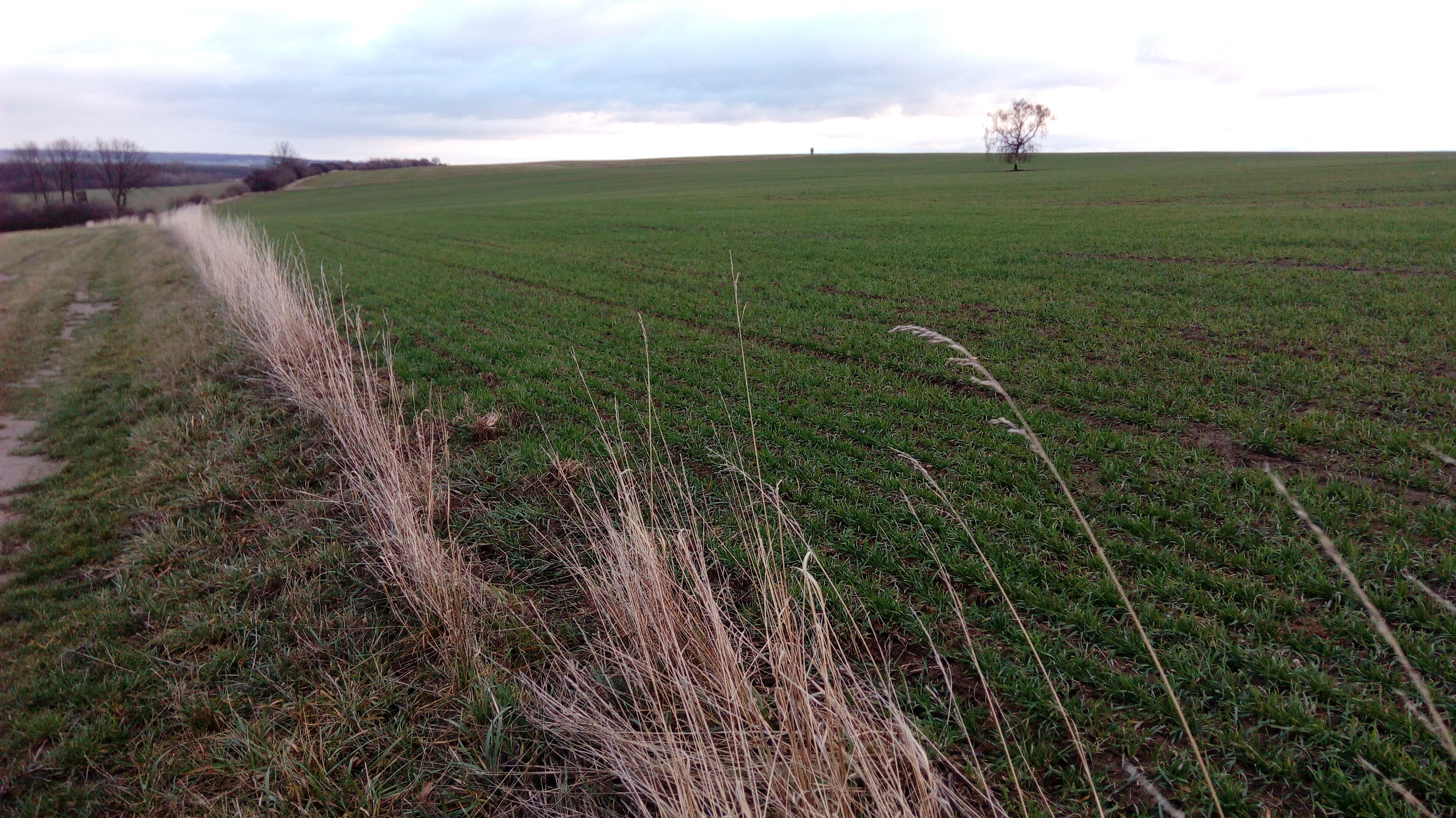 Cecemín hilltop, southbound view with a birch, Central Bohemia, Czech Republic